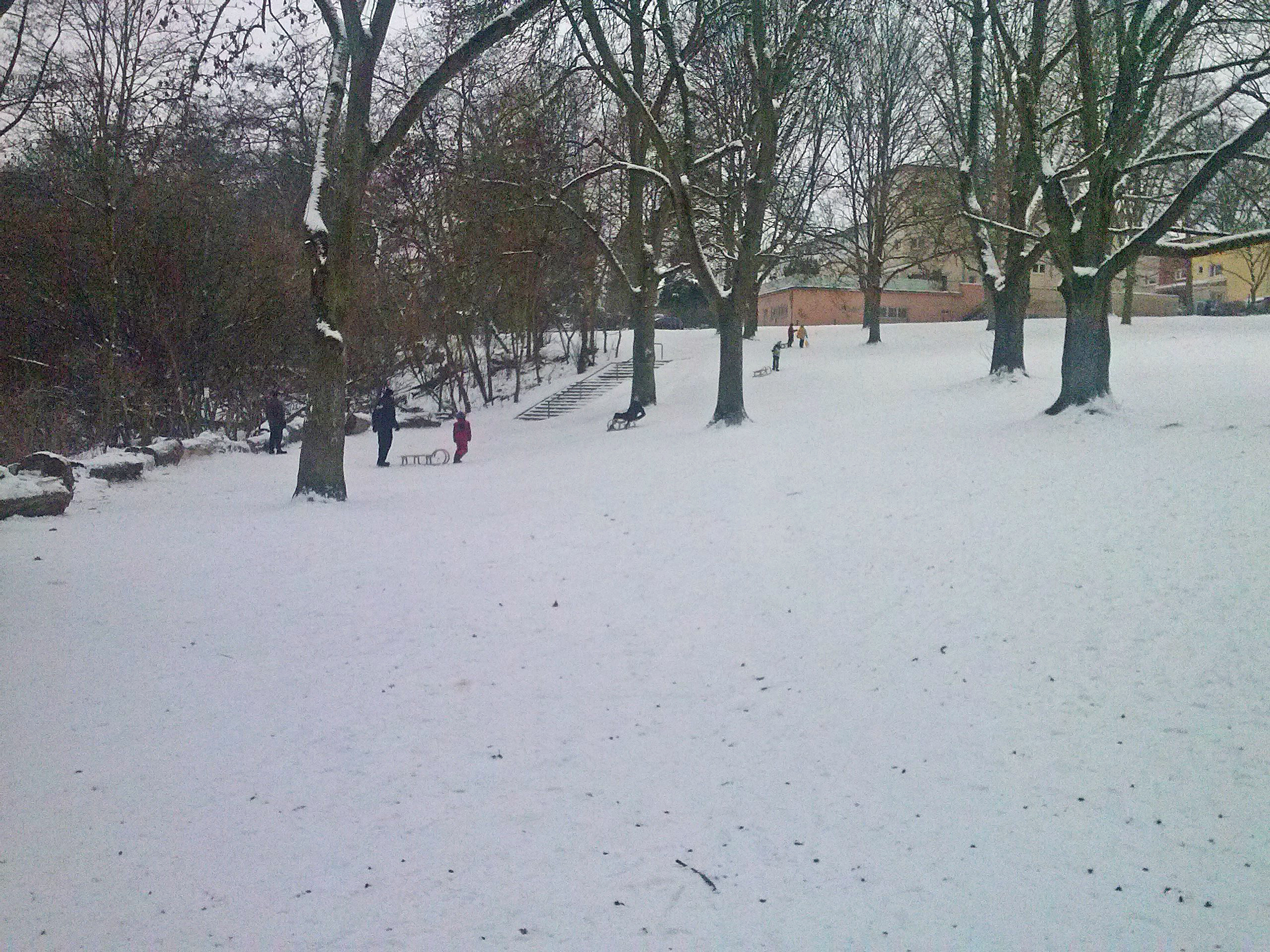 "Adlerwiese" in Frankfurt Praunheim; sledding hill